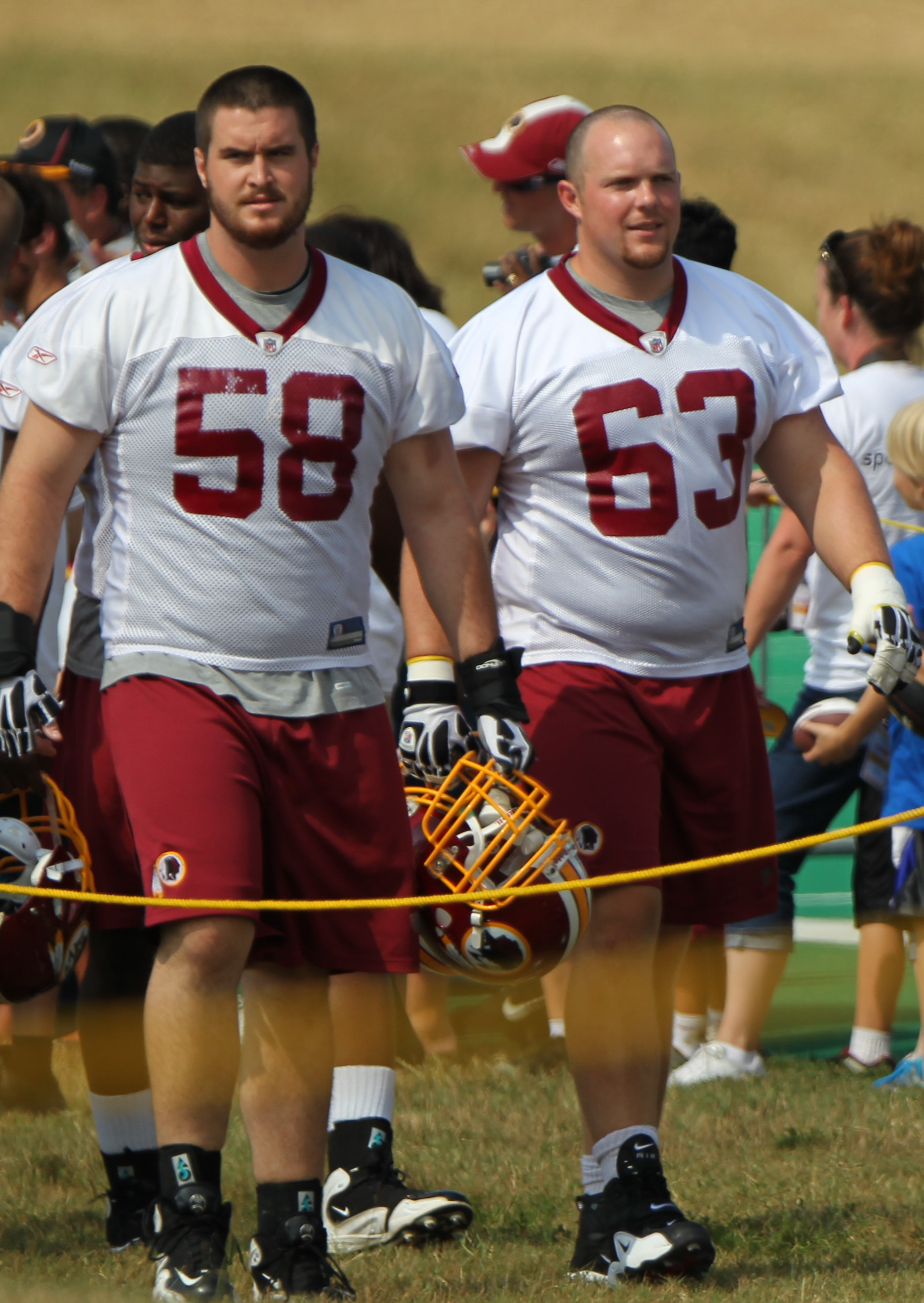 Erik Cook (left) and Will Montgomery (right) at Washington Redskins Training Camp August 4, 2011